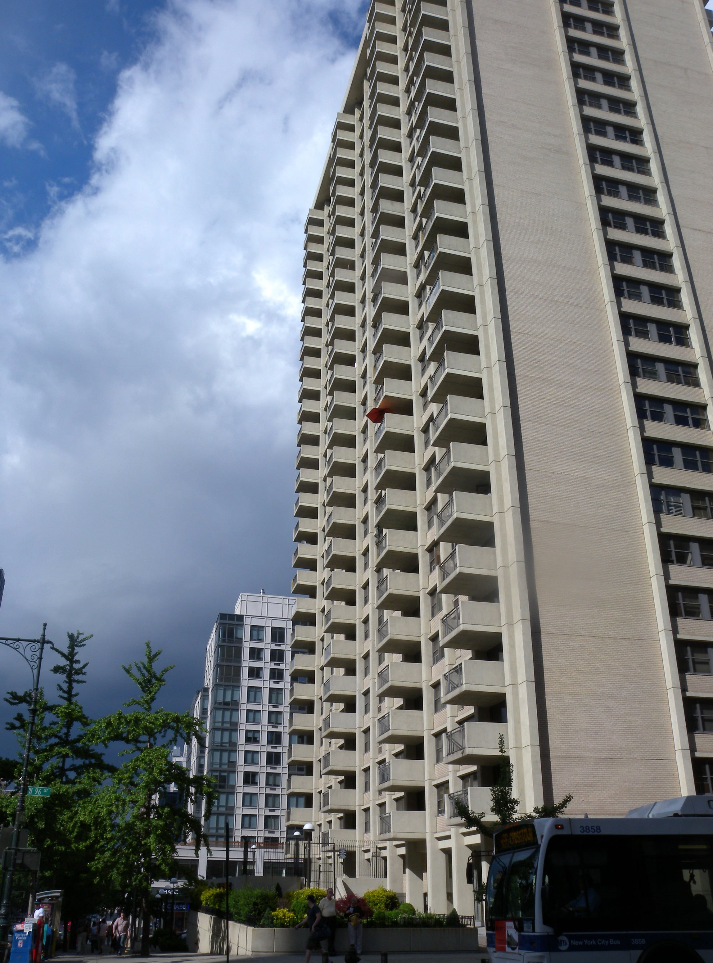 Looking northeast along Columbus Avenue and across 96th Street at 65 West 96th St on a mostly cloudy afternoon.